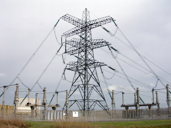 Medway Cable Tunnel South Pylon. This is a high voltage 400kV terminal pylon where the circuits are transferred from overhead to underground so as to go under the Medway Estuary from Kemsley to Grain.